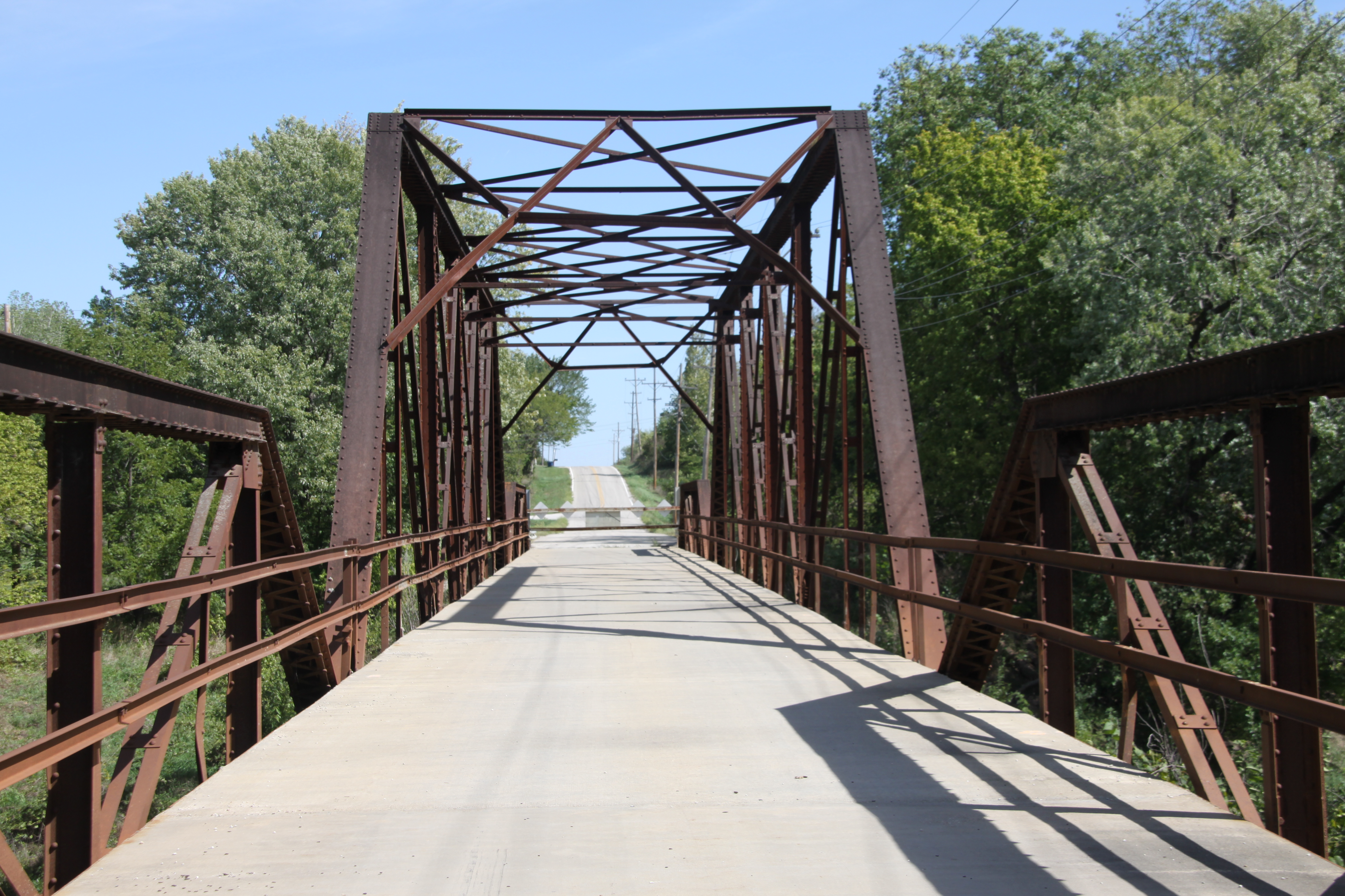 Carey's Ford Bridge